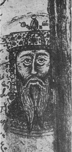 Miniature of Emperor Konstantinos VIII in Biblioteca Estense of Modena